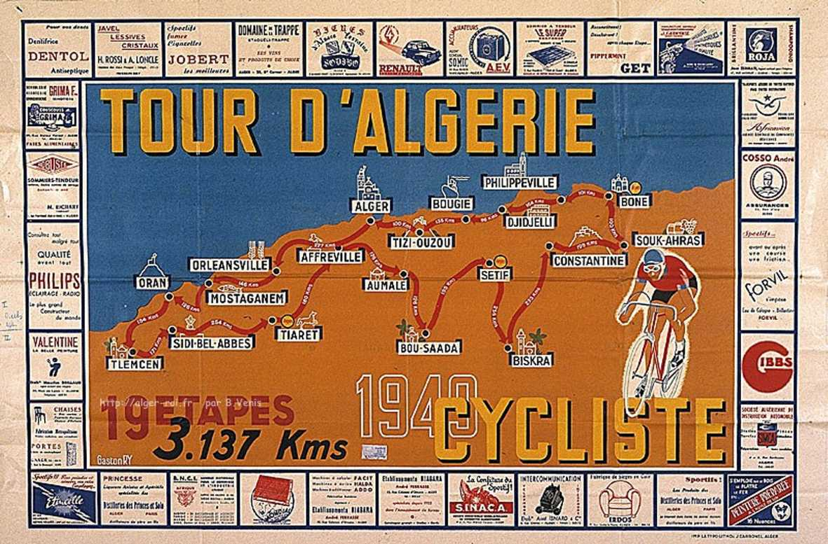 17 tour algerie 1949 dromigny